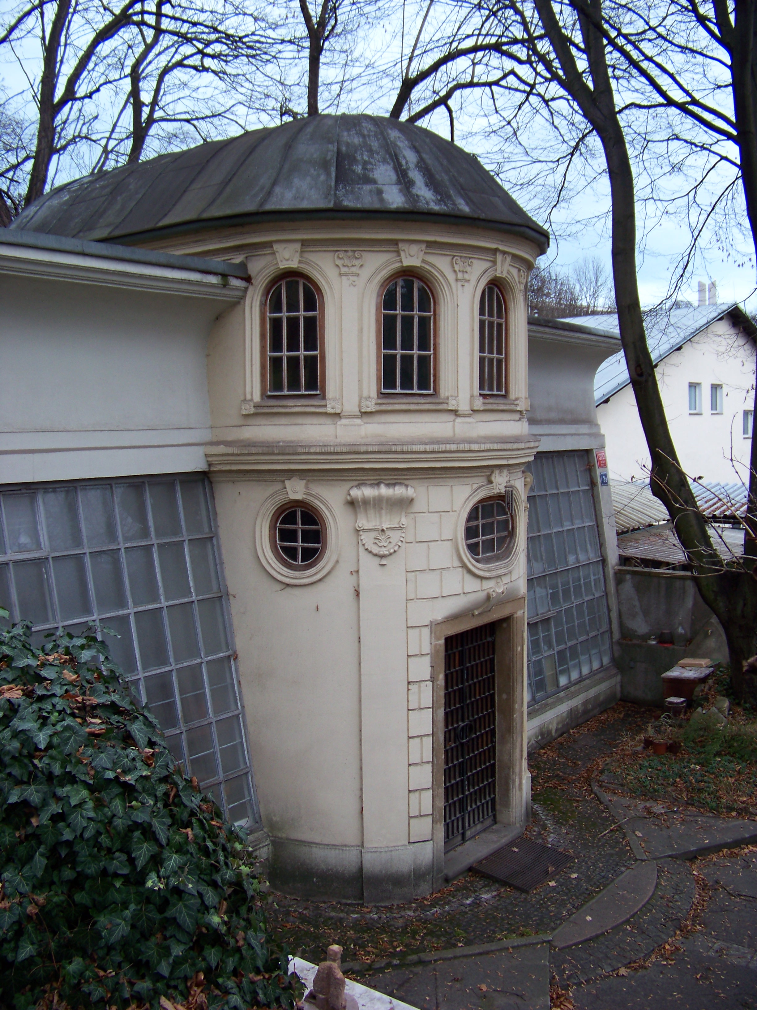 Prague-Smíchov, the Czech Republic. Klamovka Garden, a rococo pavilion with a greenhouse. - Google Maps - Google Earth